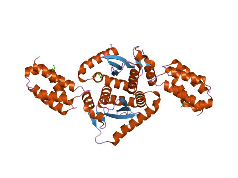 Cartoon representation of the molecular structure of protein registered with 2b4j code.